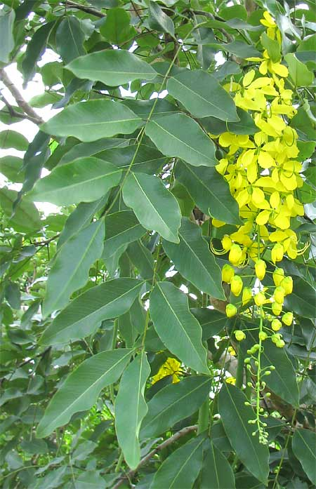 Cassia fistula flowers and leaves.